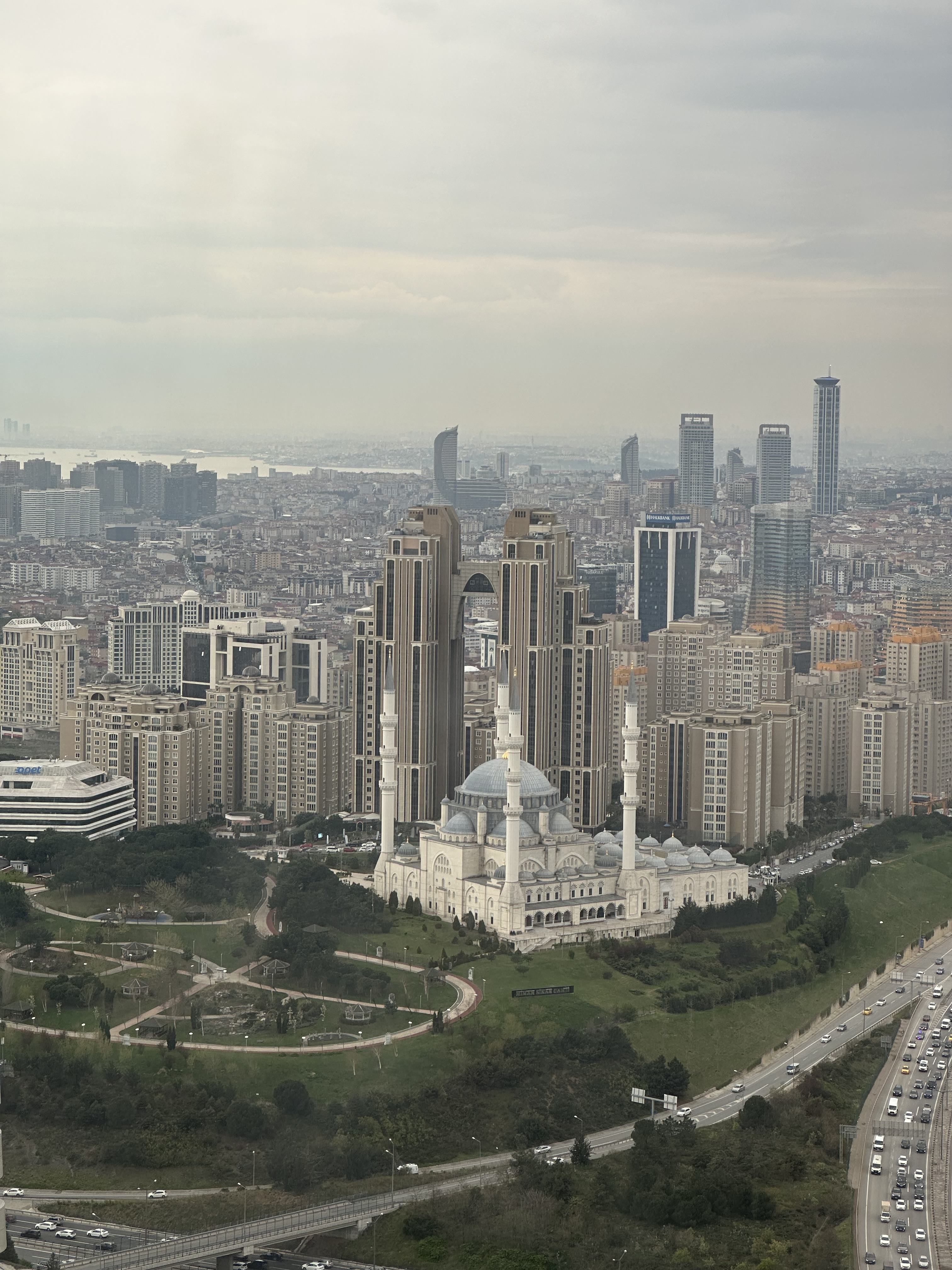 Selin S. at Istanbul Pier